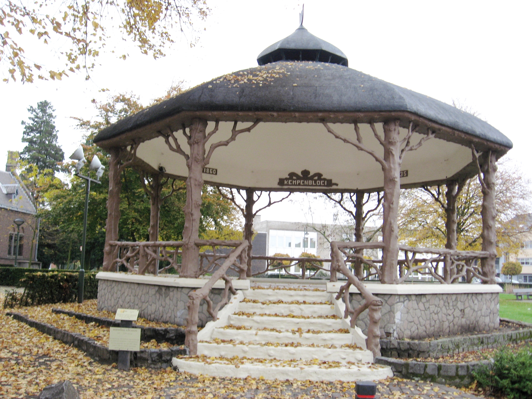 Kiosk at the church in Achel, Hamont-Achel, Limburg, Belgium